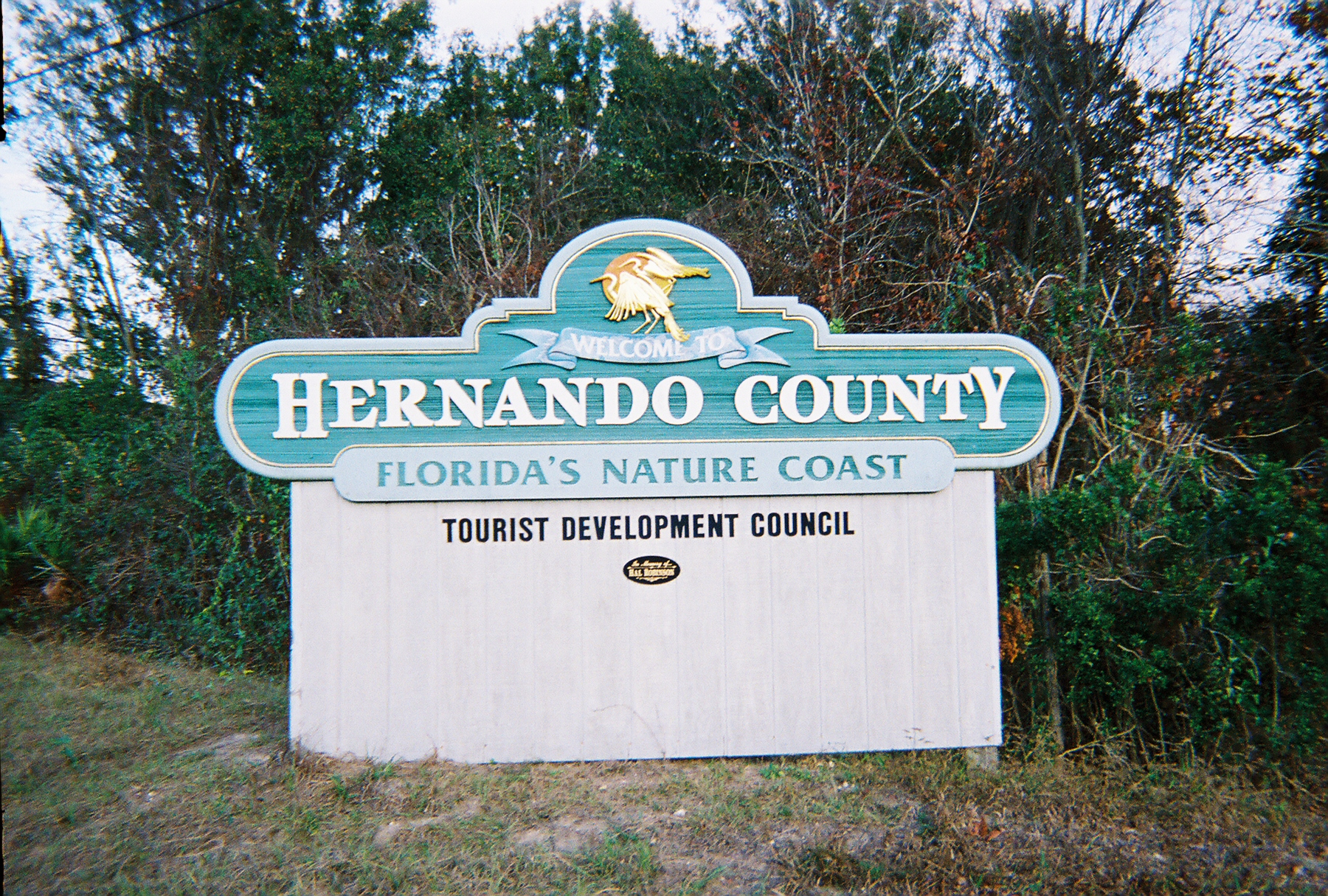 The second attempt at an image of a sign on U.S. Route 19 in Florida in southwestern Hernando County, Florida|Hernando County in Spring Hill Florida. The sign boasts of Hernando County as being part of Florida's Nature Coast, which is ironic considering the increase of development along this stretch of the road.